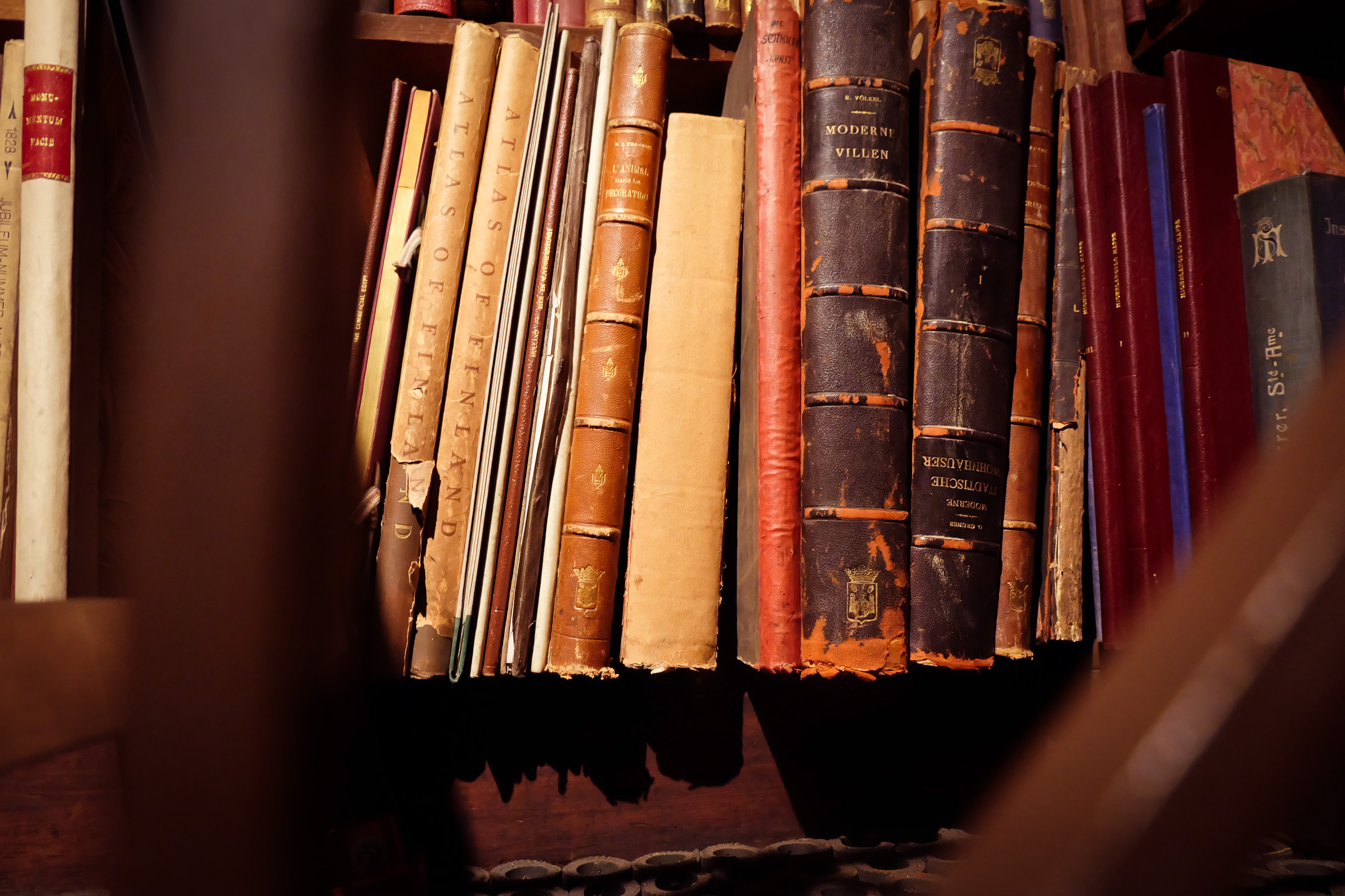 This is a file created at the museum: Hendrik Conscience Heritage Library in Antwerp